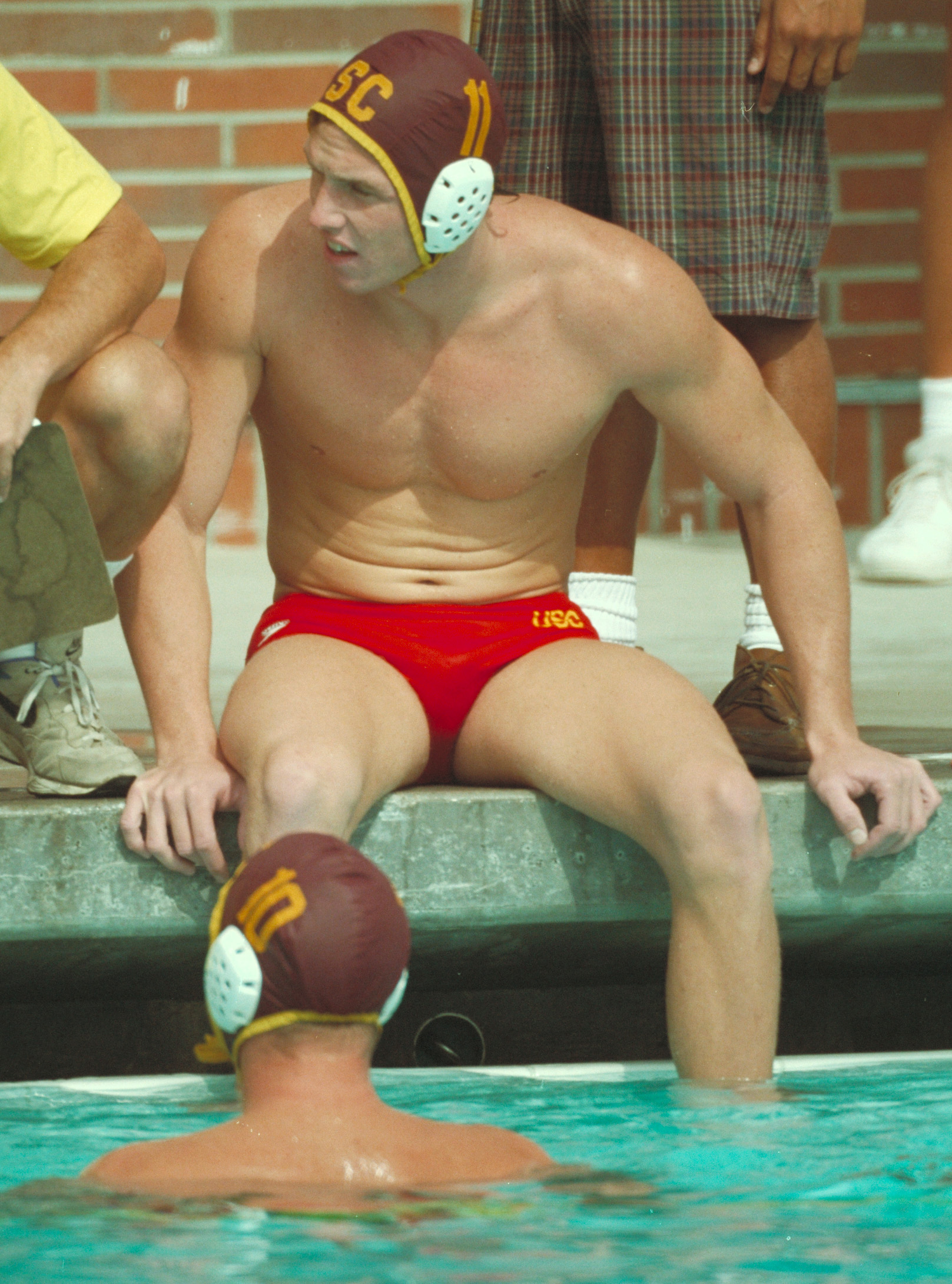 Water Polo player at the USC campus pool circa 1993.